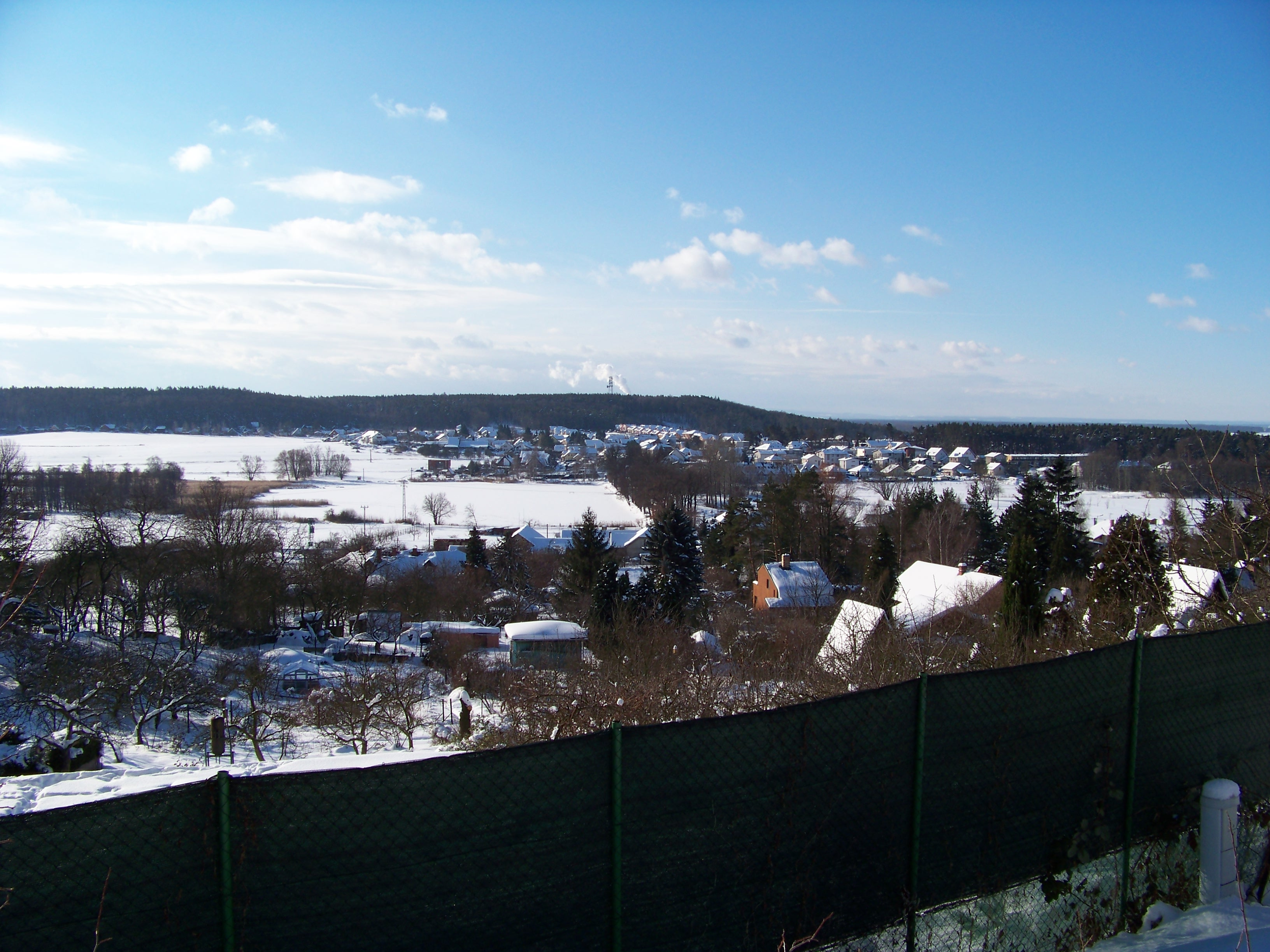 Hradec Králové-Roudnička, the Czech Republic. A view from Zámeček Street (Hradec Králové-Třebeš).